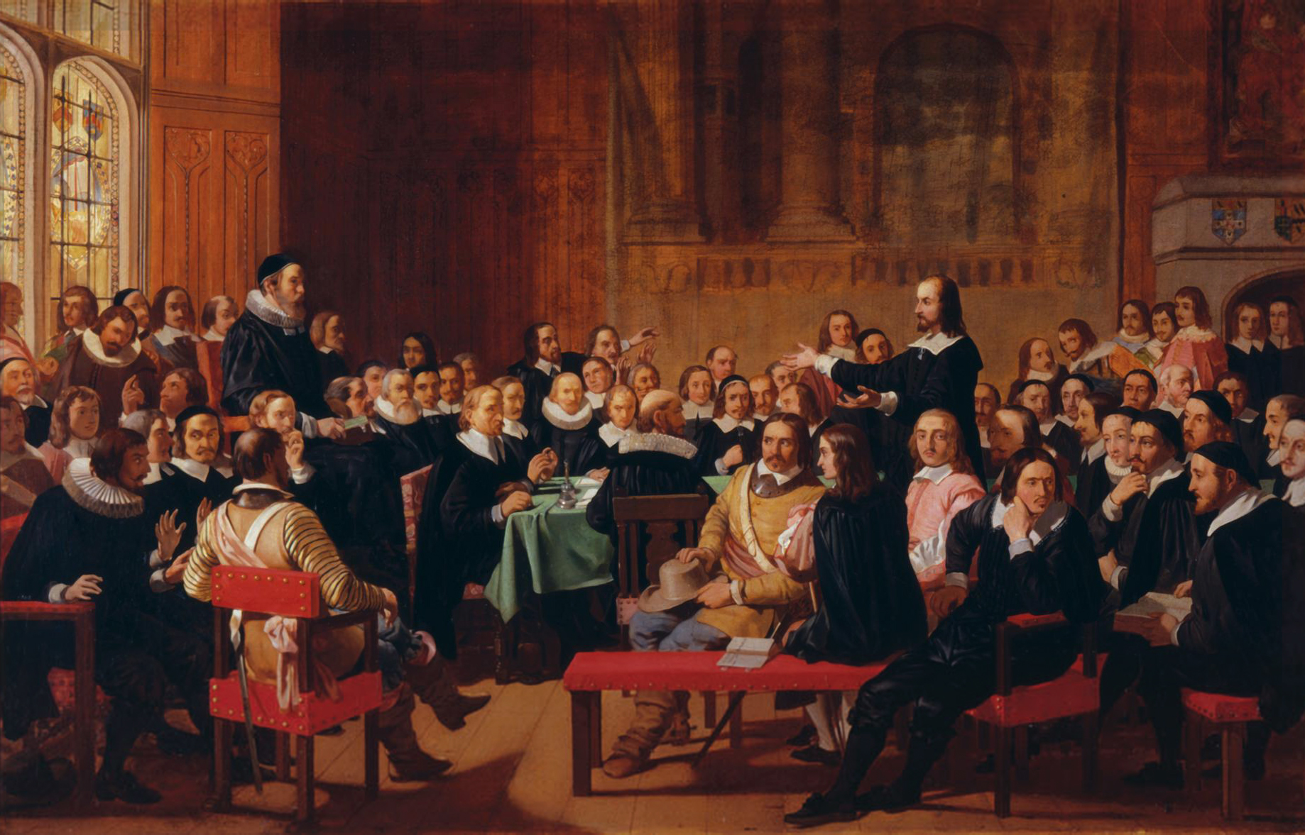 A meeting of the Westminster Assembly on 21 February 1644. Philip Nye, a member of the independent party, argues that the form of church government advocated by the presbyterians, under which local congregations submit to higher assemblies of elders, was "thrice over pernicious, to civil states and kingdoms". He was immediately "cryed down", according to Robert Baillie, who kept a journal of the proceedings. The painting depicts many individuals who were not members of the Assembly, because when issues of particular interest were debated, non-members would attend as spectators. Josias Shute, however, died before the Assembly met.